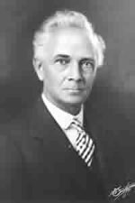 Charles Elbridge Cox photo from Indiana Supreme Court Library